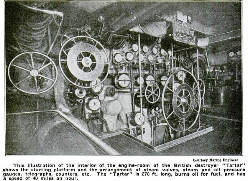 Engine room of British destroyer HMS Tartar.